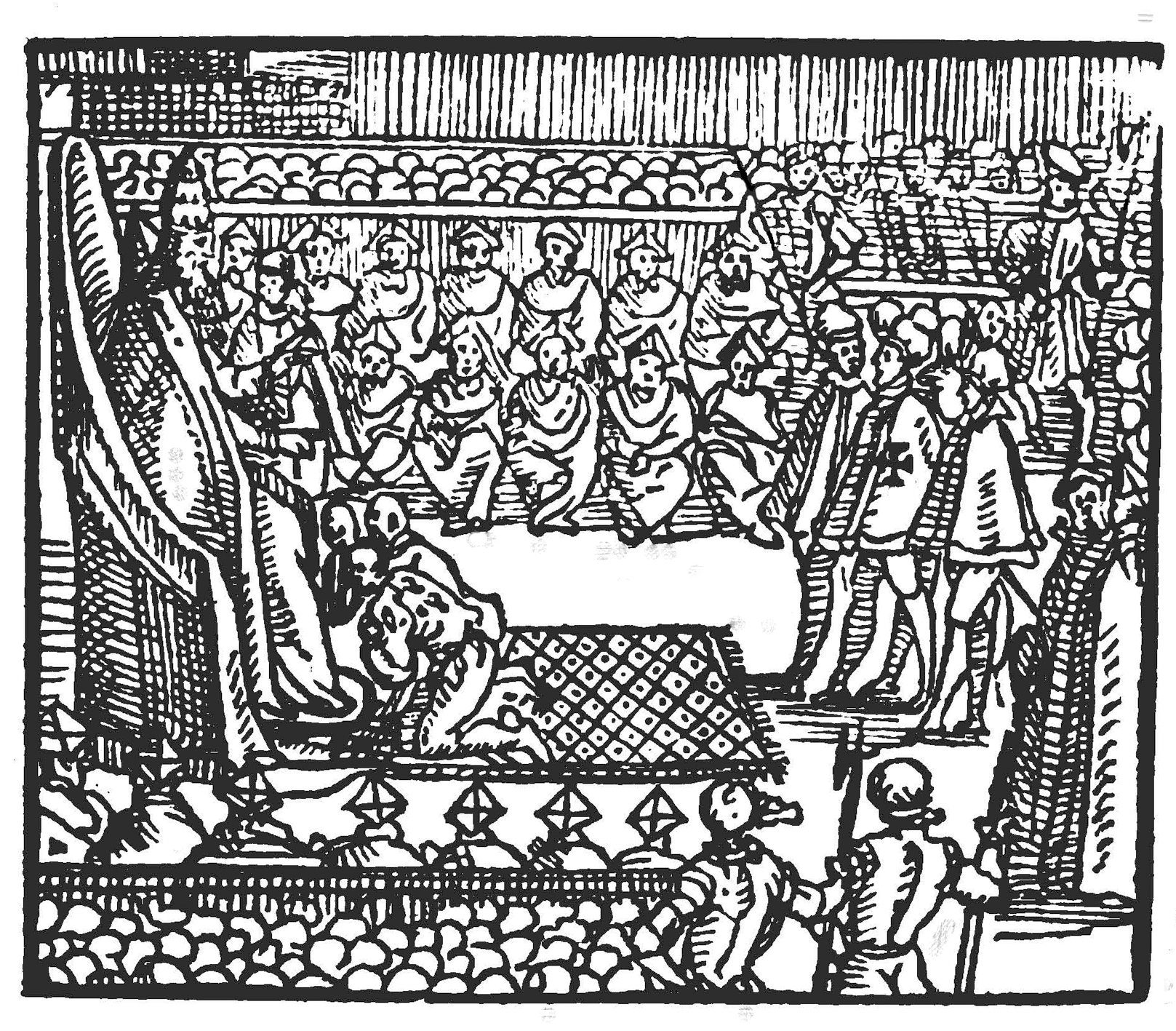 Audience of the Japanese legates in Rome 1585. Ciapi, Marc[o] Antonio: Compendio delle heroiche et gloriose attioni, et santa vita di Papa Greg. XIII. p. 82